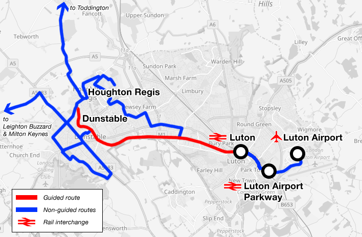 The proposed route of the Luton-Dunstable busway overlaid on OpenStreetMap data.